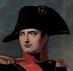 Napoleon Bonaparte